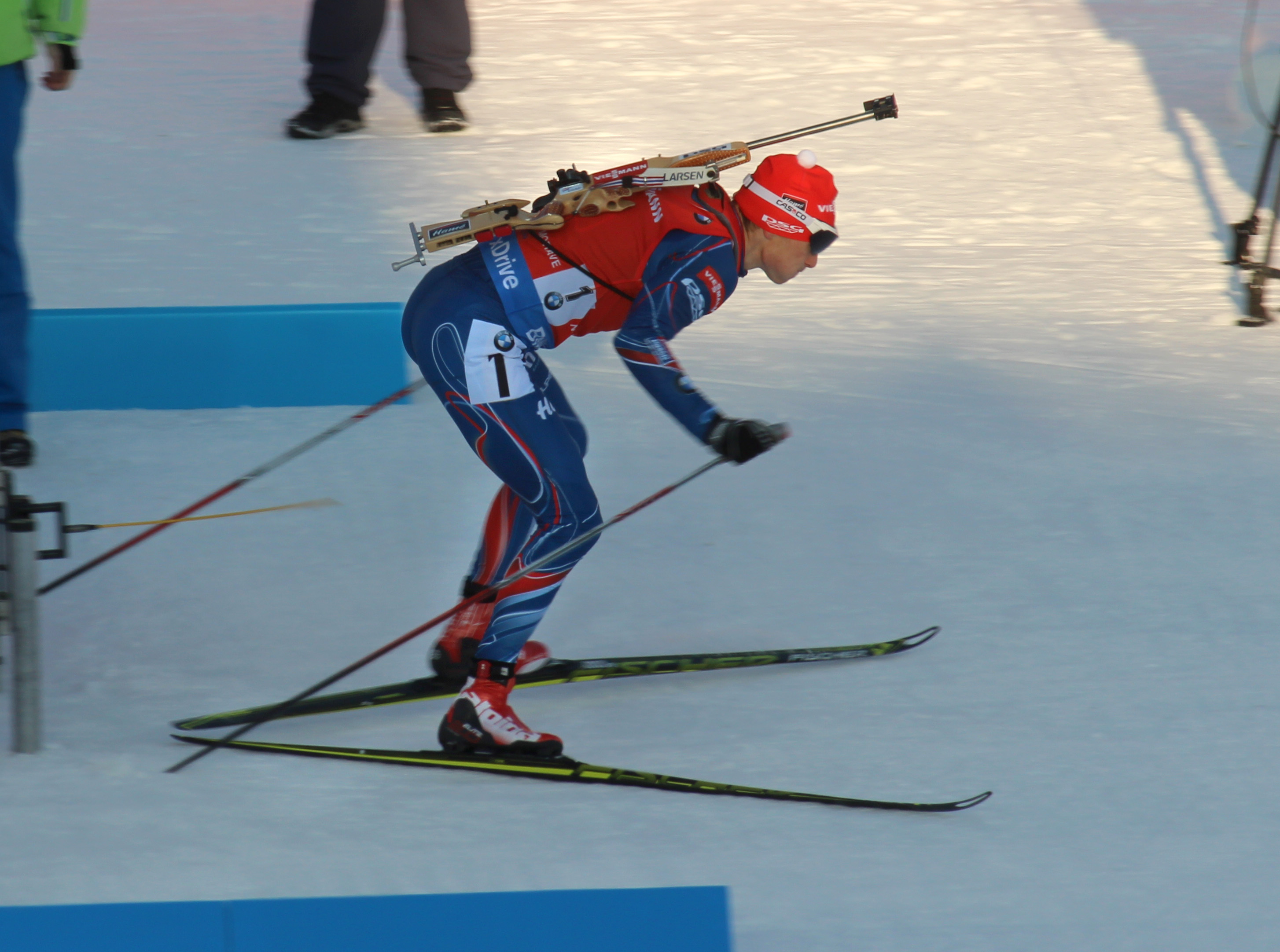 Ondřej Moravec at Biathlon World Cup 2015 in Nové Město, Czech Republic – sprint men